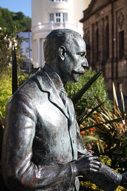 Sir Edward Elgar, Belle Vue Island, Great Malvern Sculpture by Rose Garrard and unveilled by Prince Andrew.